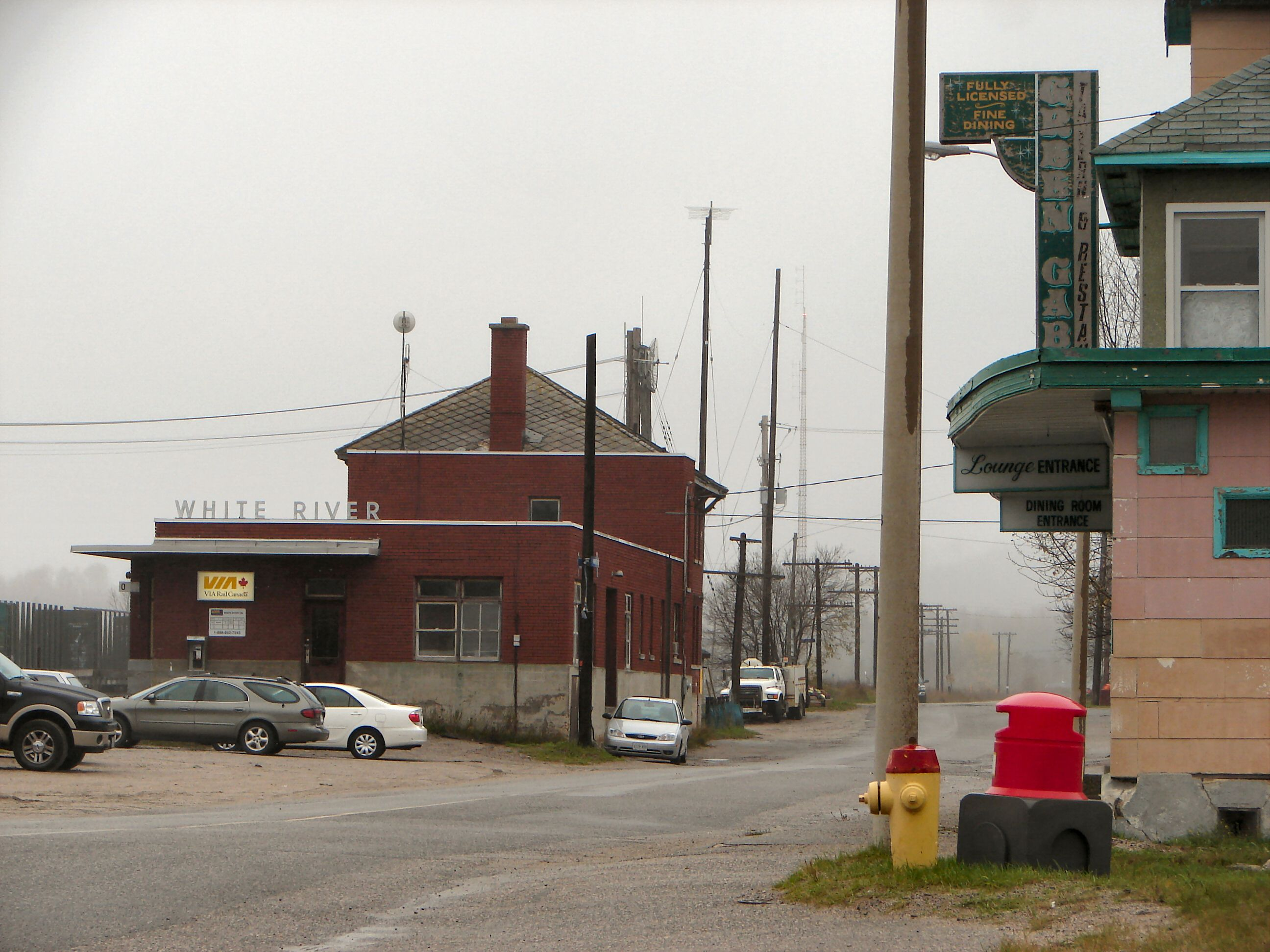 White River, Algoma District, Ontario, Canada